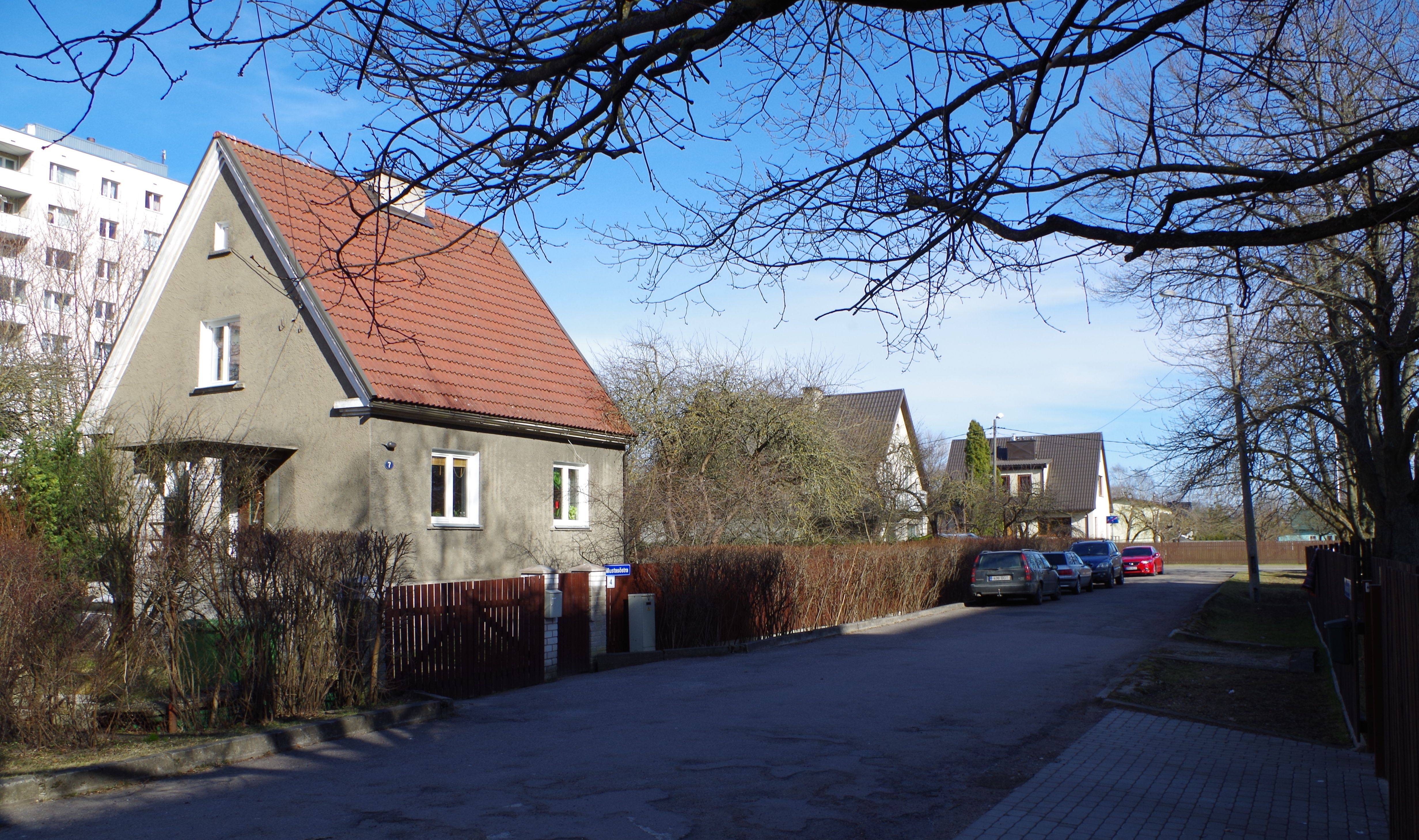 Mustasõstra street in Tallinn